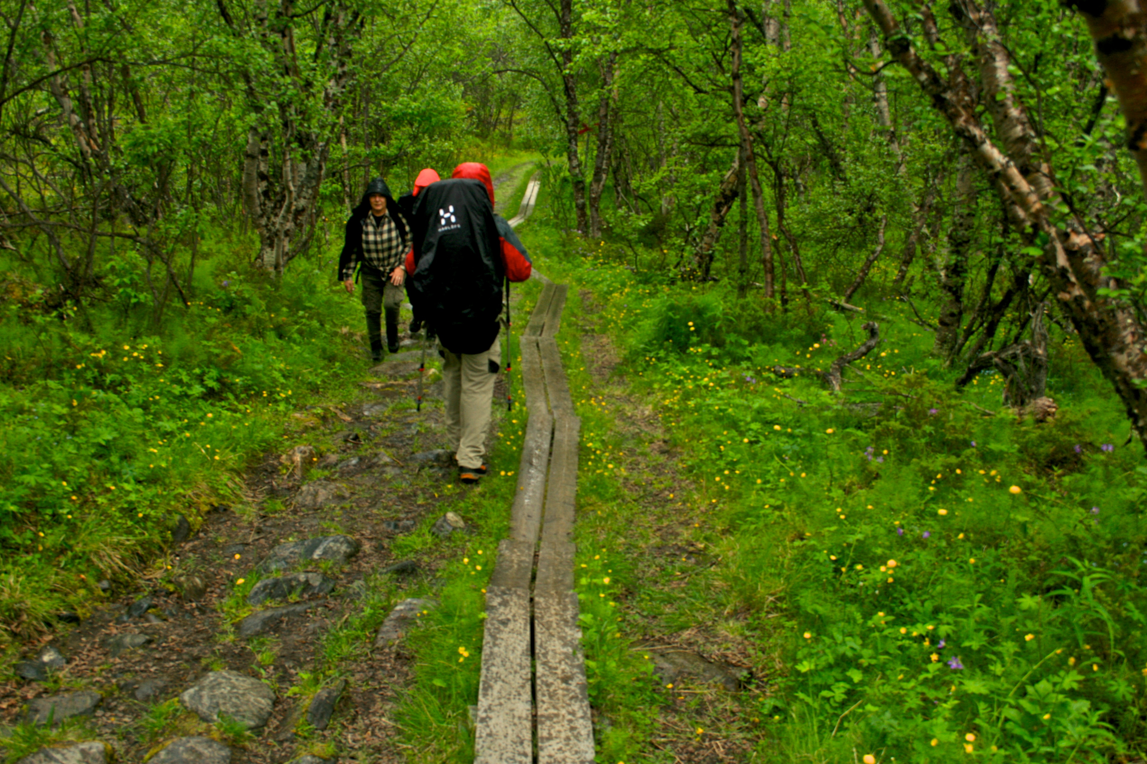 Birch forest (Betula pubescens subs. tortuosa) in Abisko national park, along Kungsleden, during a rainy day.